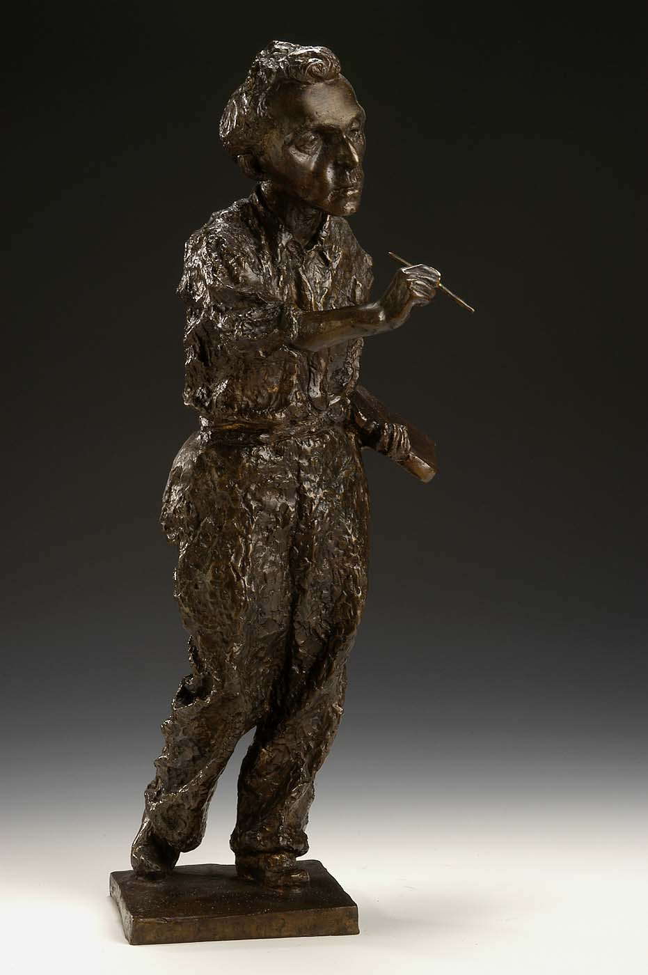 Raphael Soyer ca. 1967-1970 Eugenie Gershoy Born: Krivoi Rog, Russia 1901 Died: United States 1986 bronze 19 5/8 x 7 1/2 x 7 3/4 in. (50.0 x 19.1 x 19.7 cm.) Smithsonian American Art Museum Gift of Stanley Bard 1972.90 Smithsonian American Art Museum Luce Foundation Center, 4th Floor, 47B